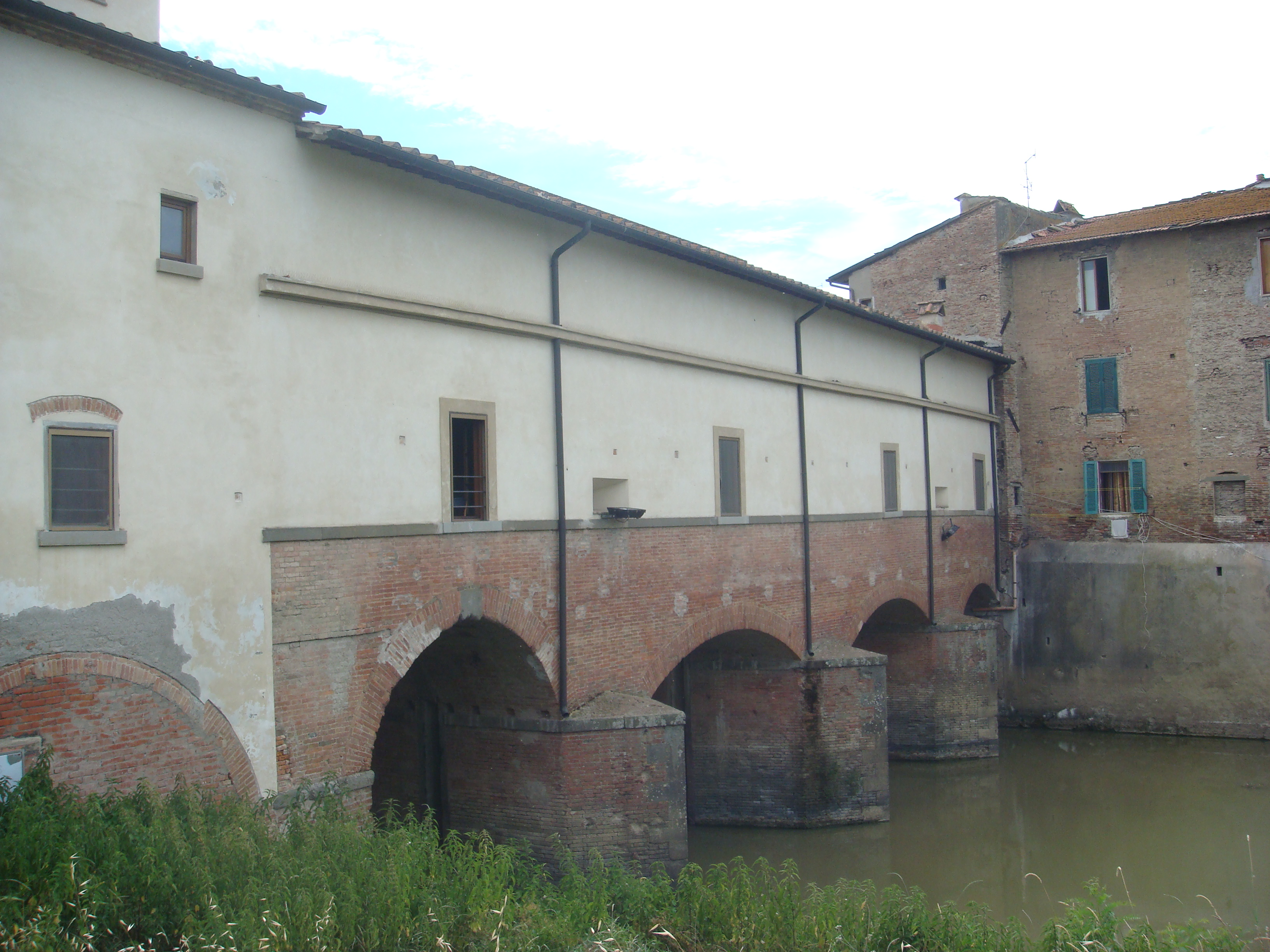 View of Ponte a Cappiano bridge and Usciana canal